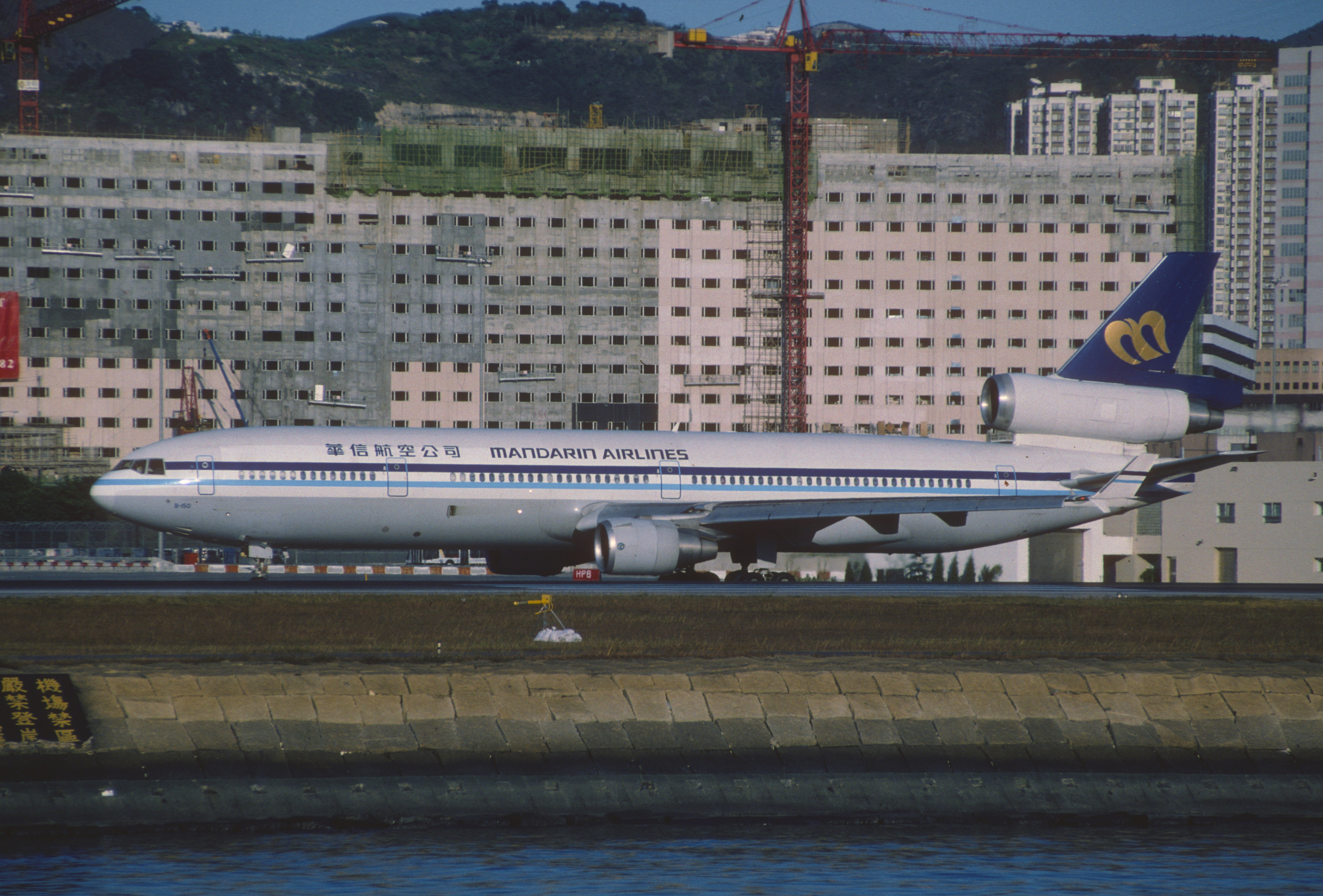 Mandarin Airlines MD-11; B-150@HKG, December 1994